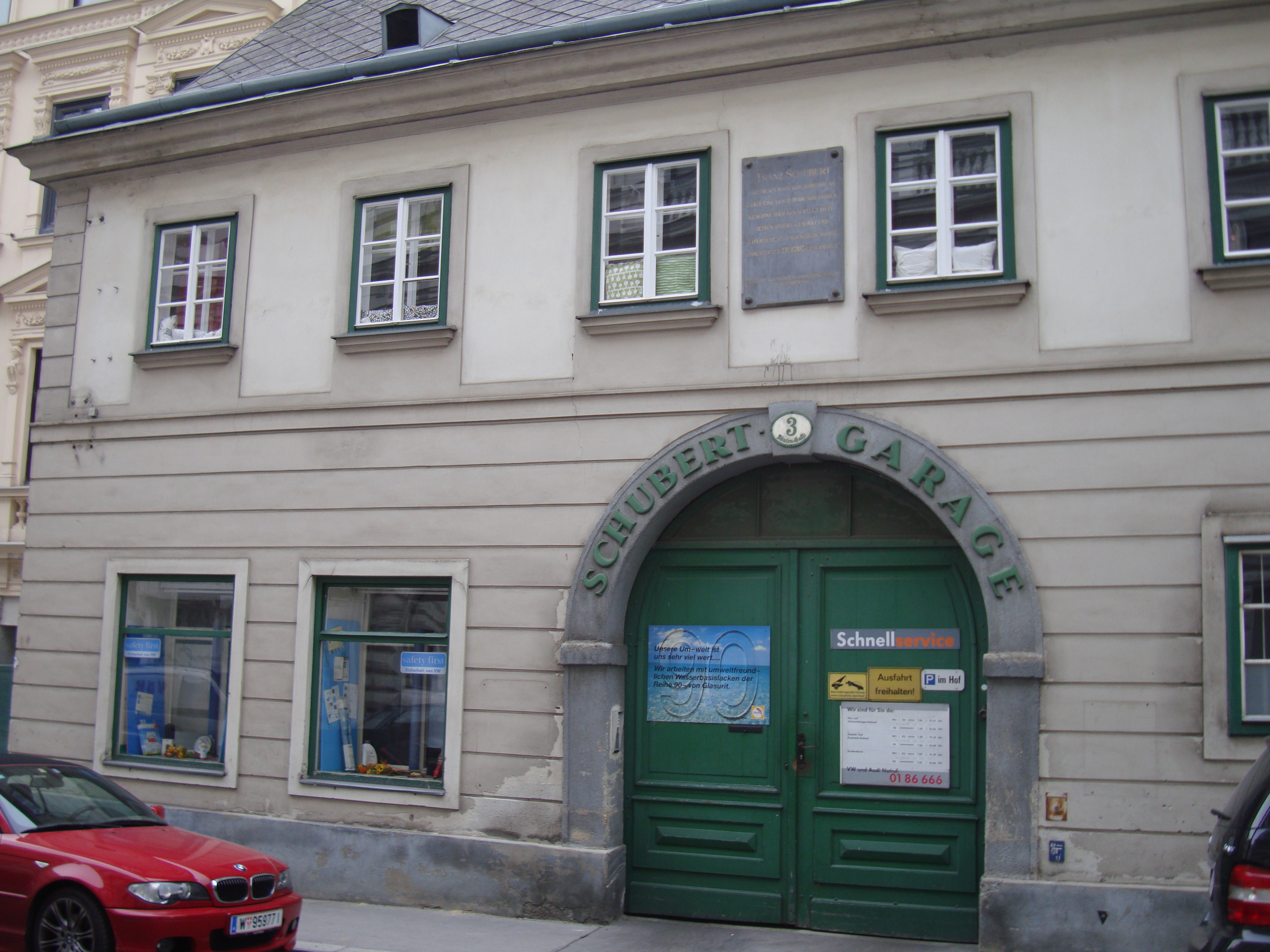 Saeulengasse5